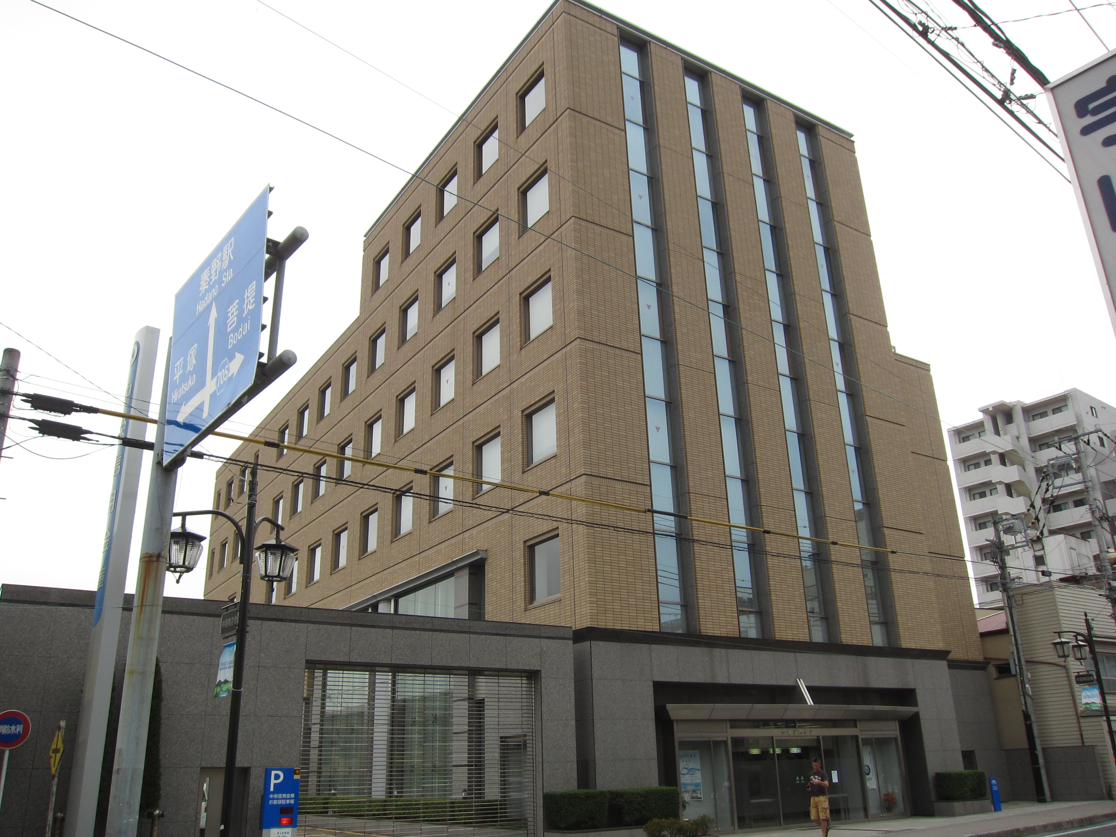 Chuei Shinkin Bank